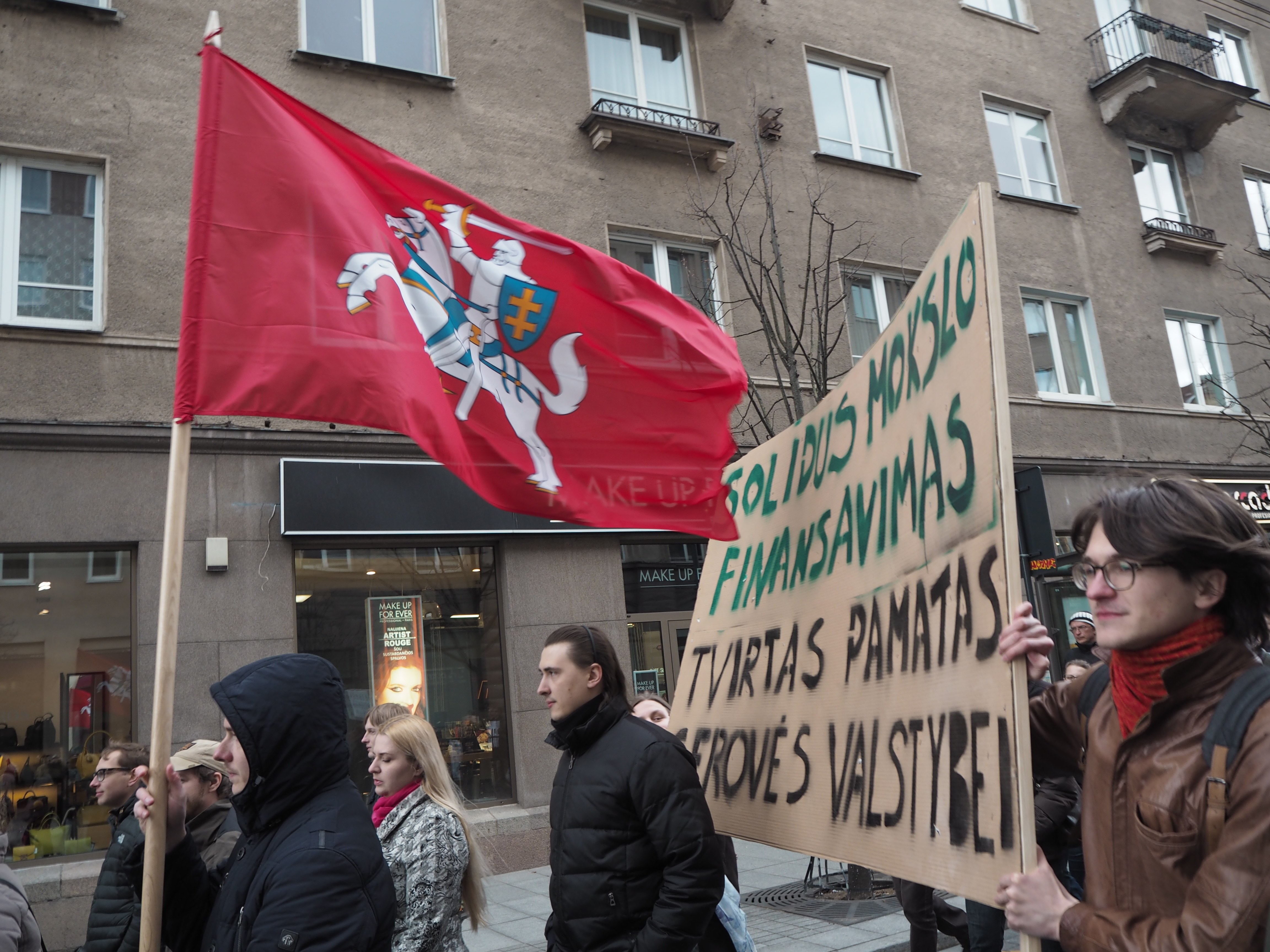 Picture from the March for Science rally held in Vilnius, 2017